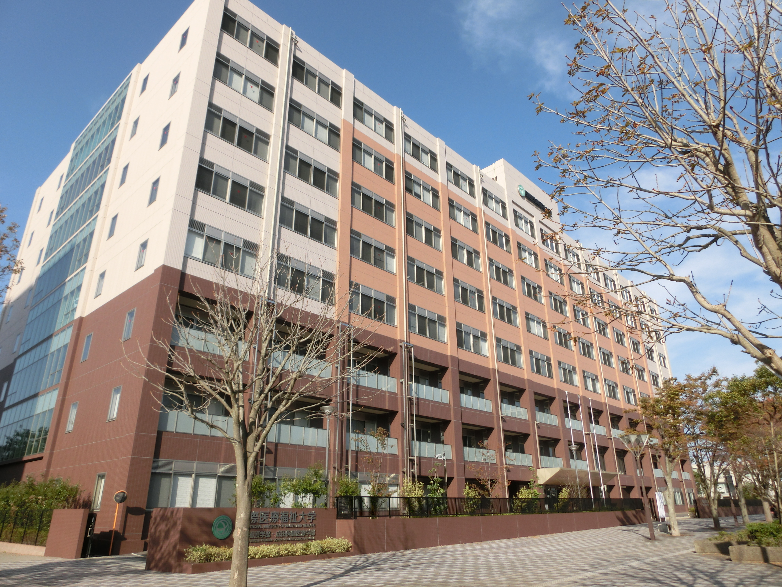 IUHW Narita Campus